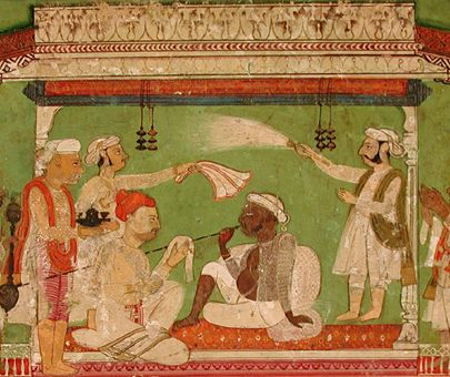 Raghuji Bhonsle II and his courtiers